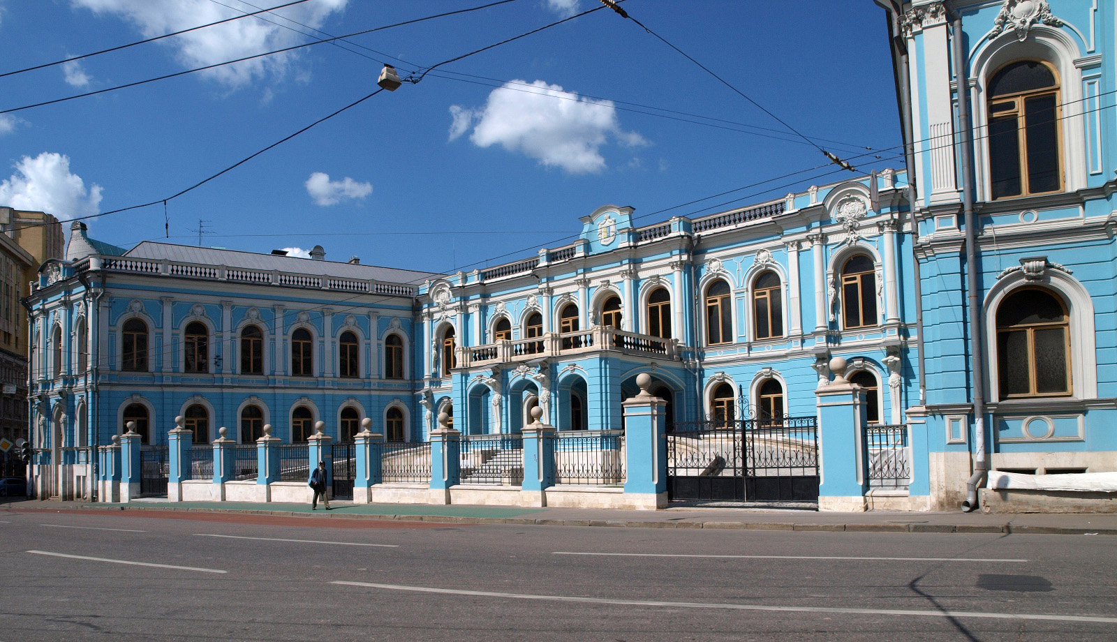 Moscow, Myasnitskaya Street.